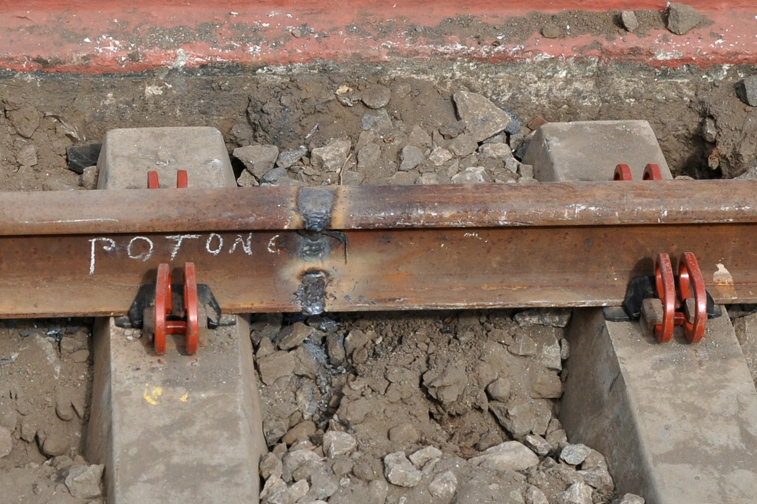 Leces train station in Probolinggo Regency, East Java, Indonesia. Thermite welded rail.